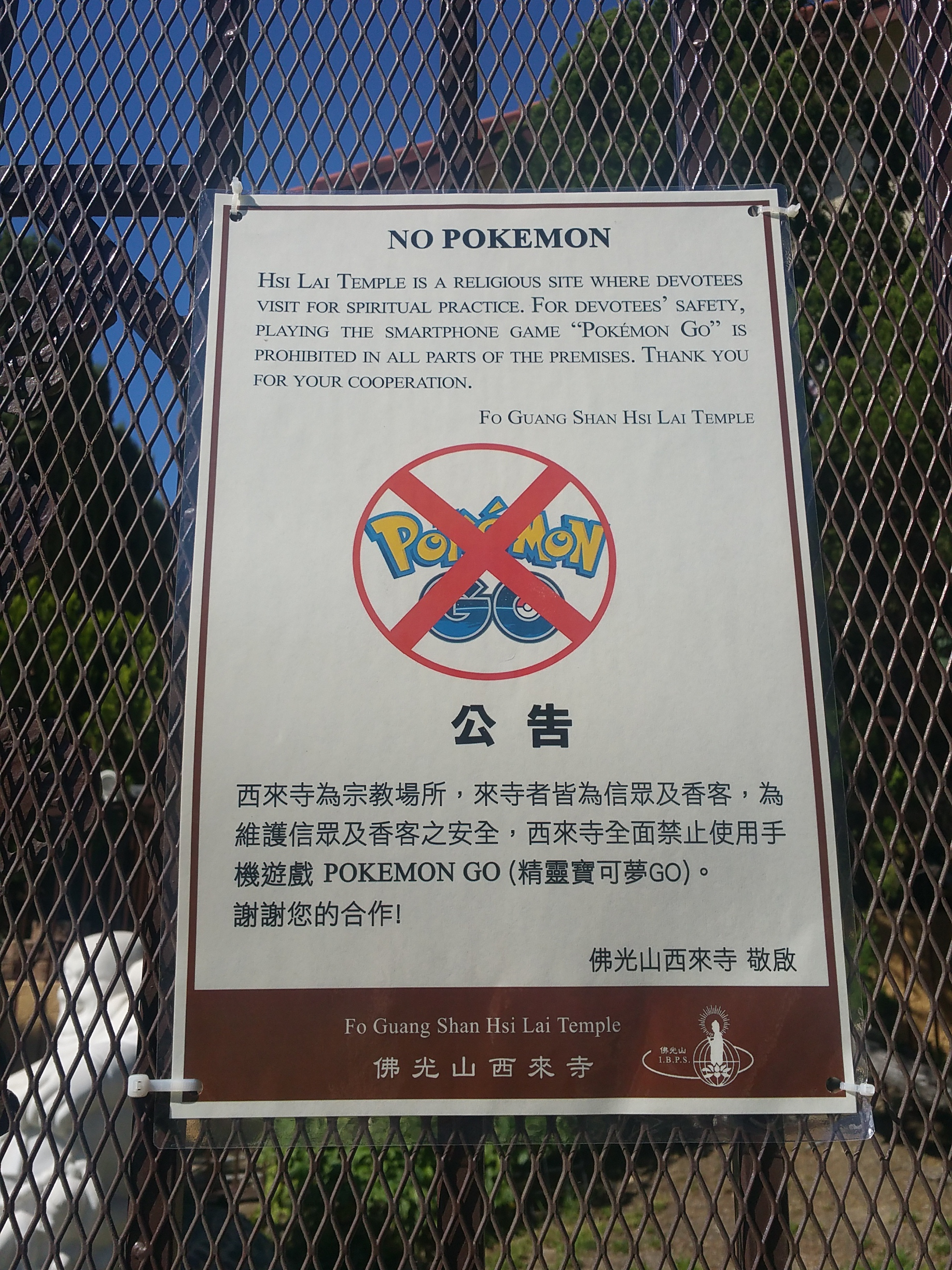 A sign admonishing Pokémon GO trainers to not play inside the temple grounds